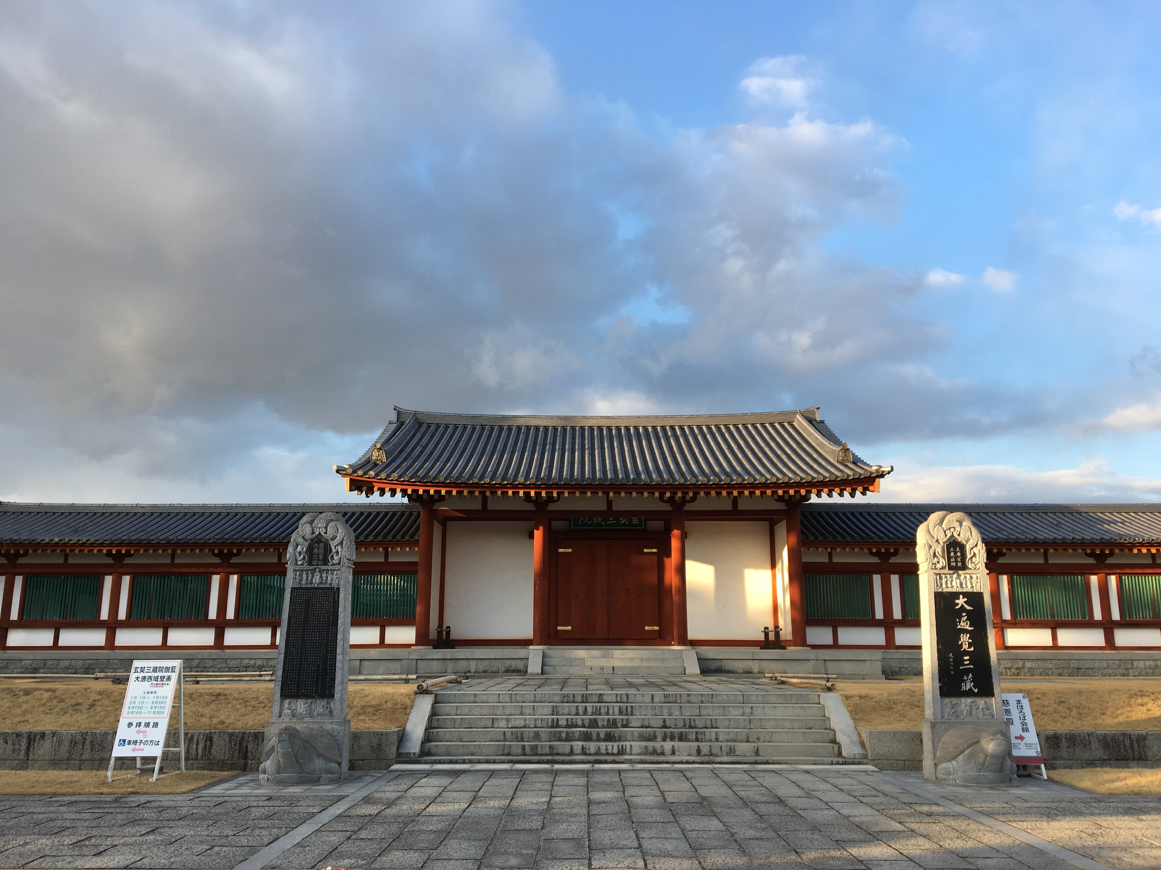 Genjousanzouin (one part of Yakushi-ji) in Nara, Japan.